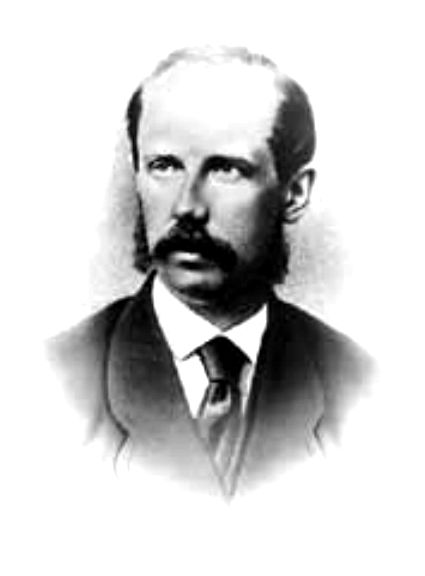 C.F. Vogelsang (1838-1874)